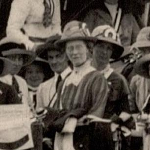 Flora (de Gaudrion) Merrifield, central figure marked with a cross, in Douglas Miller, ‘Women’s Suffrage Pilgrimage at Clayton, 21 July 1913’, 1913